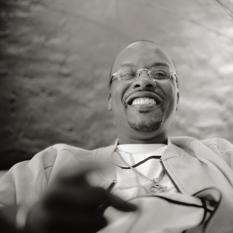 DJ Jazzy Jeff in Hamburg, Germany in March 2002